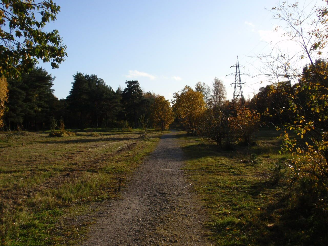 Merimetsa forest in Merimetsa, Tallinn, Estonia.